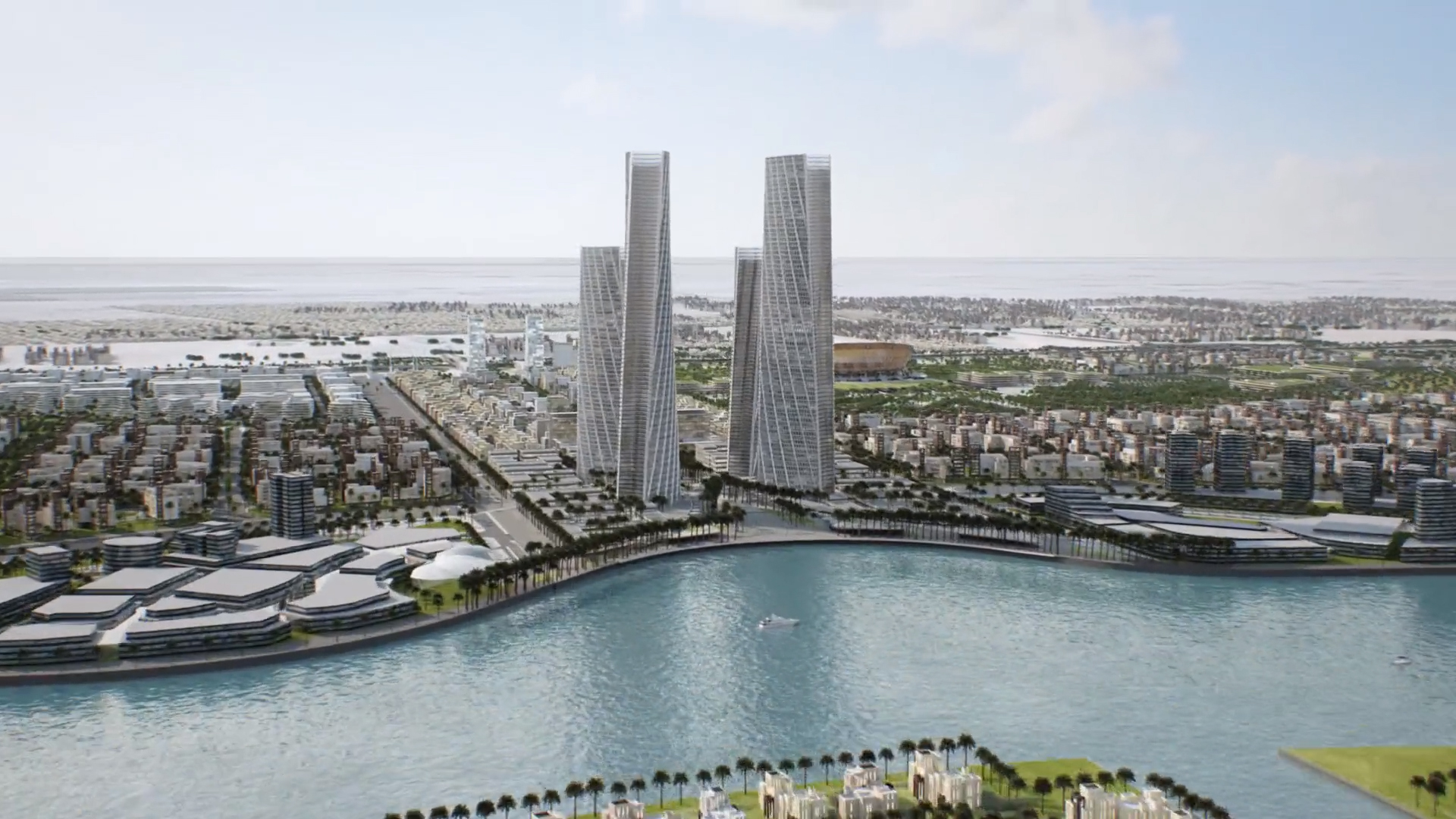 Lusail Towers and Commercial Boulevard can be seen in the center of the image.